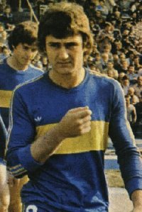 Jorge Ruso Ribolzi during his second tenure on Boca Juniors